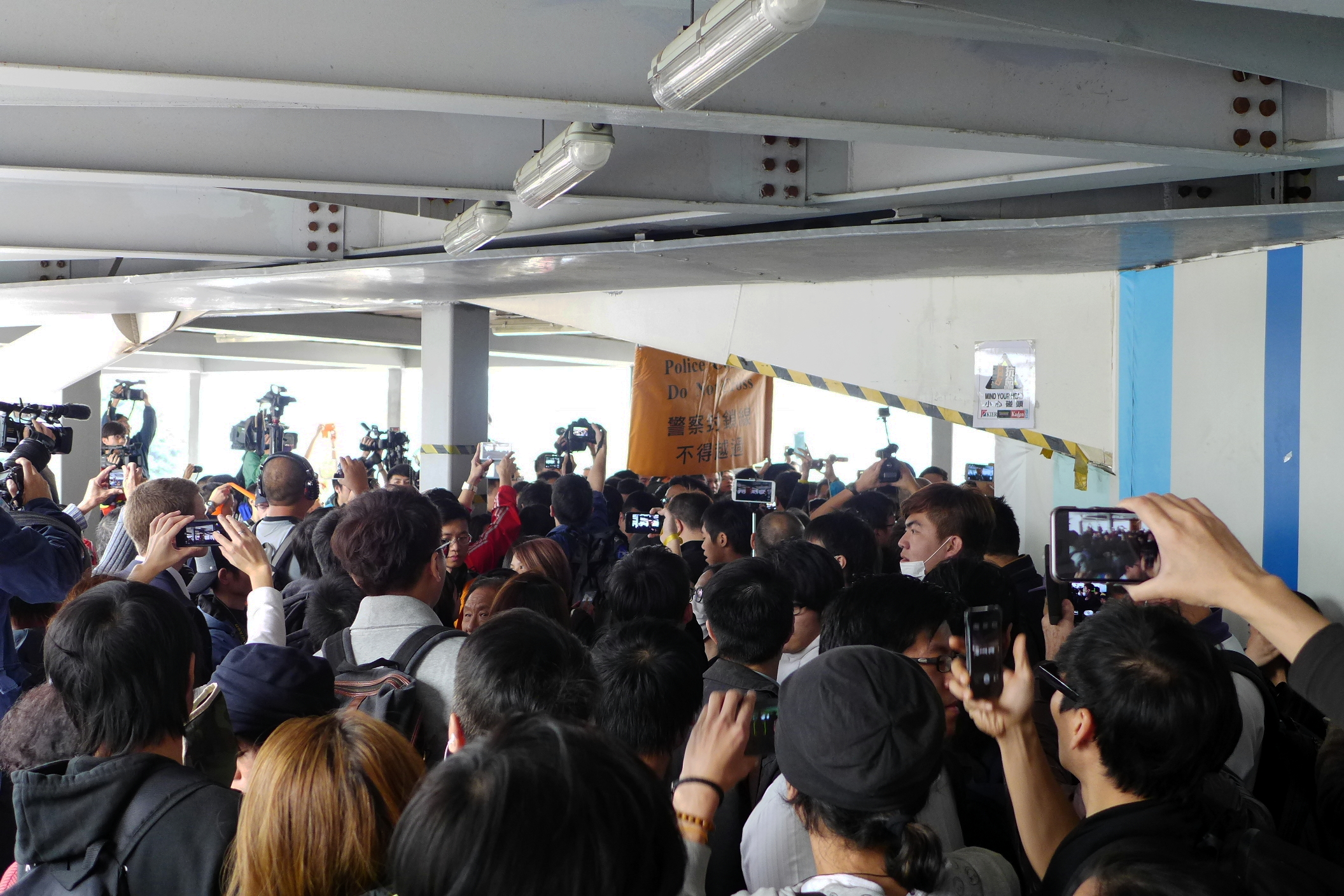 Police blocked bridge to Citic Tower